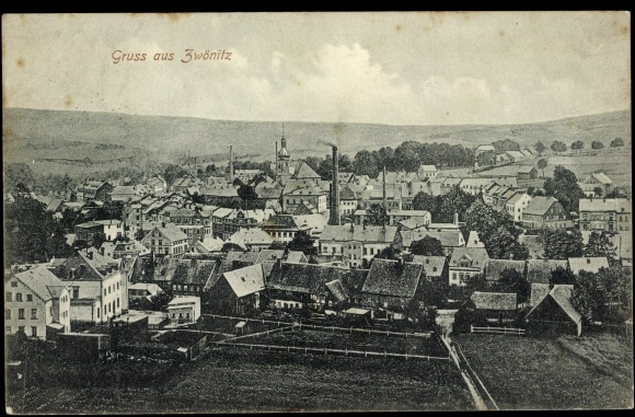 Stadt Zwoenitz 1909